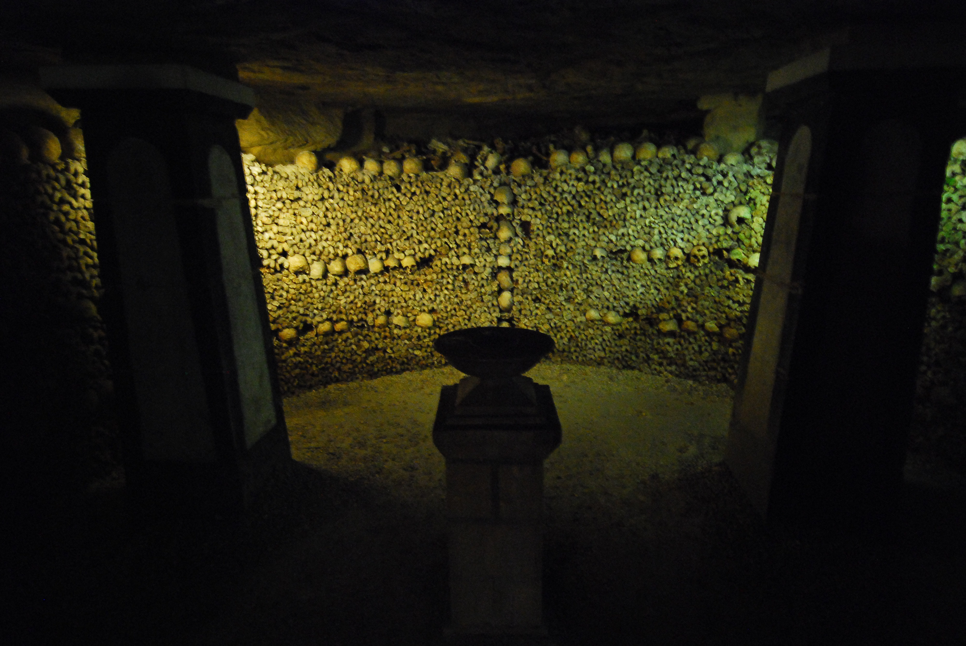 shrine of the dead